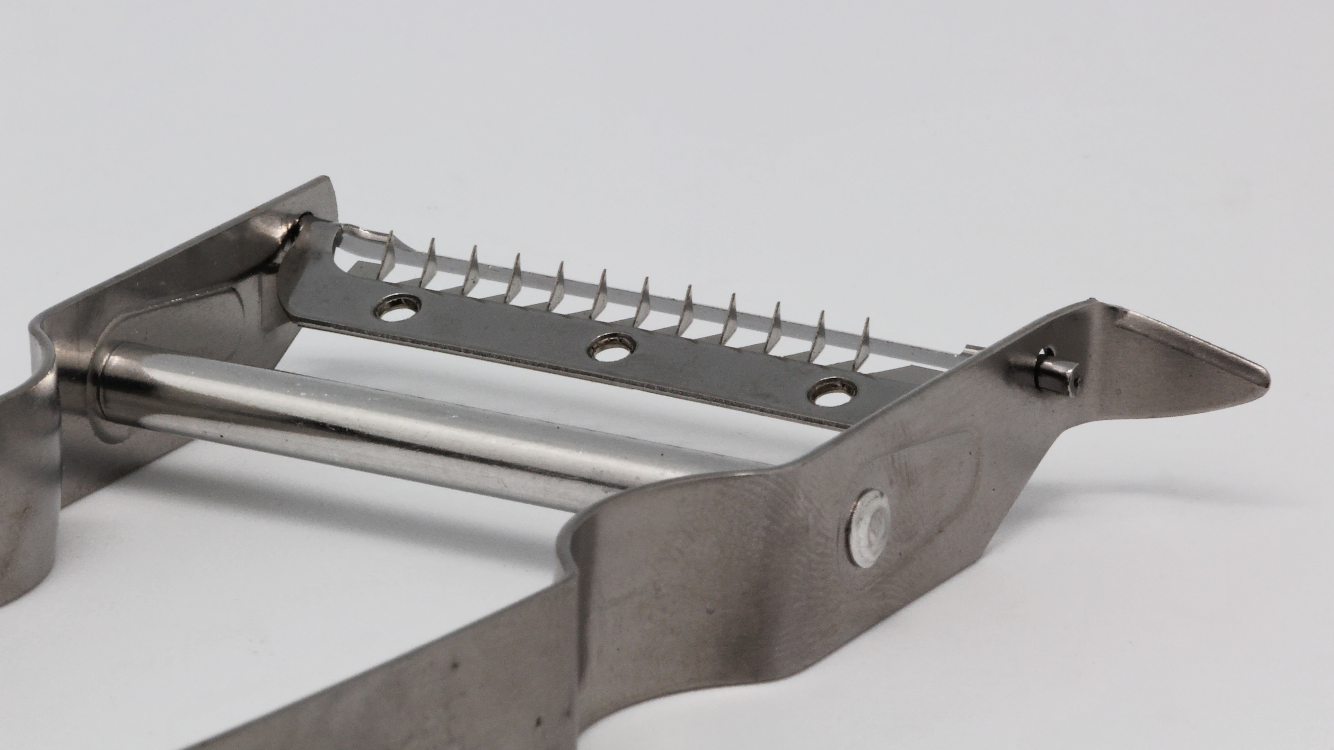 Castor peeler for julienning.